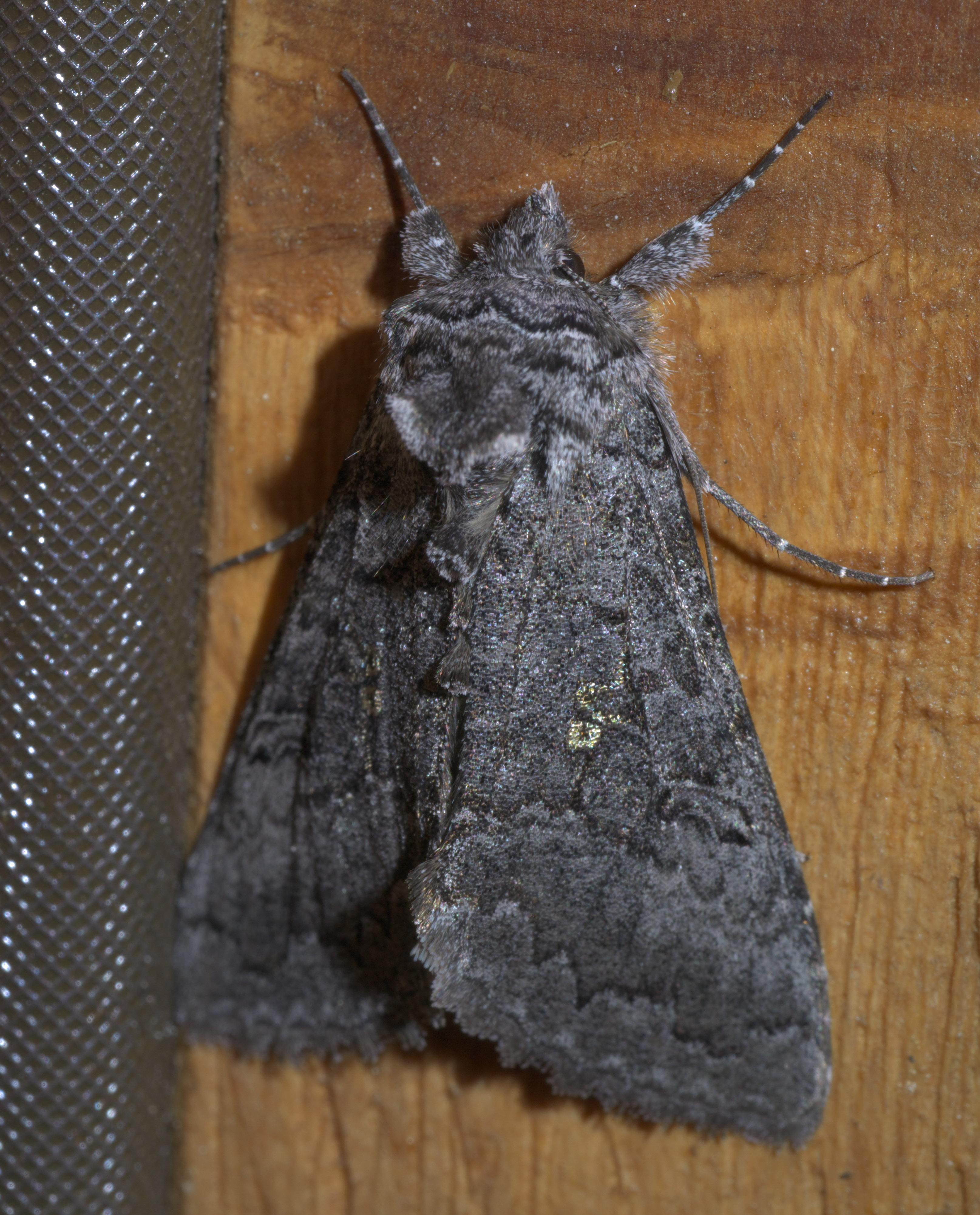 Syngrapha viridisigma, Spruce False Looper - Hodges #8929, ID Confidence: 90